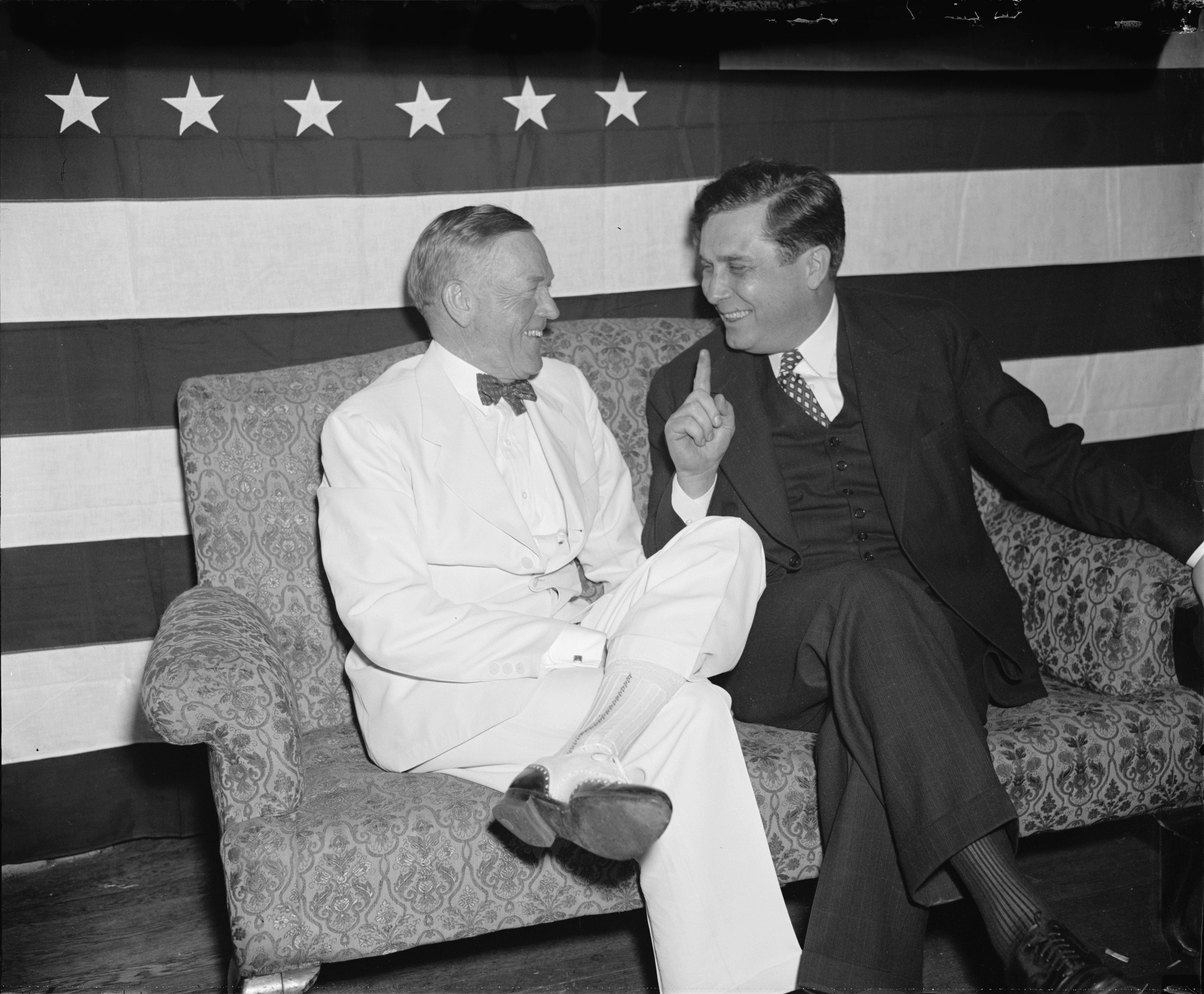 [Charles McNary, left; Wendell Wilkie, center]